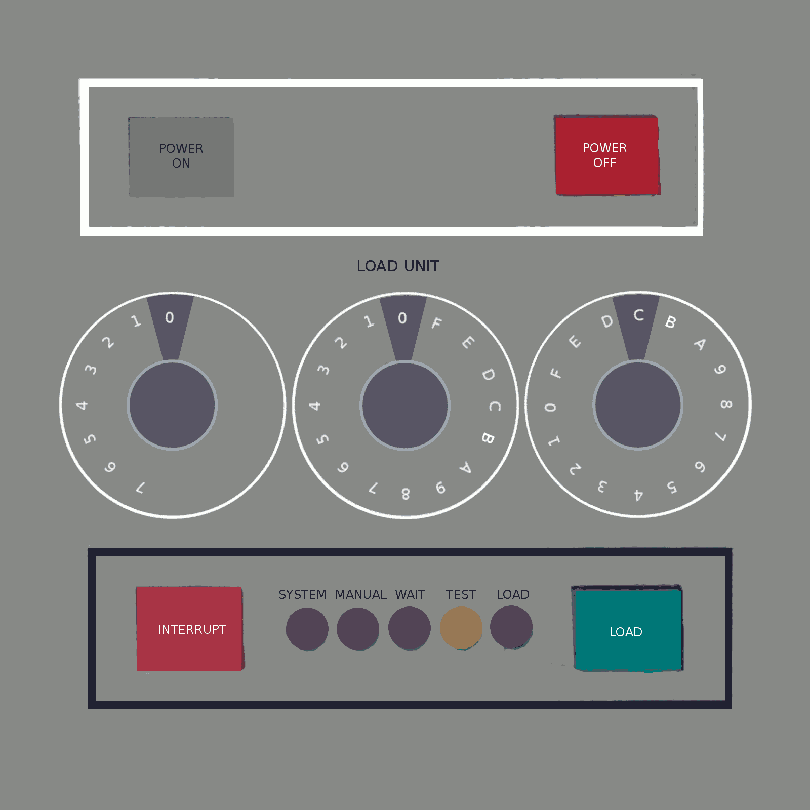 Drawing of the operator controls used on the IBM System/360 series of computers